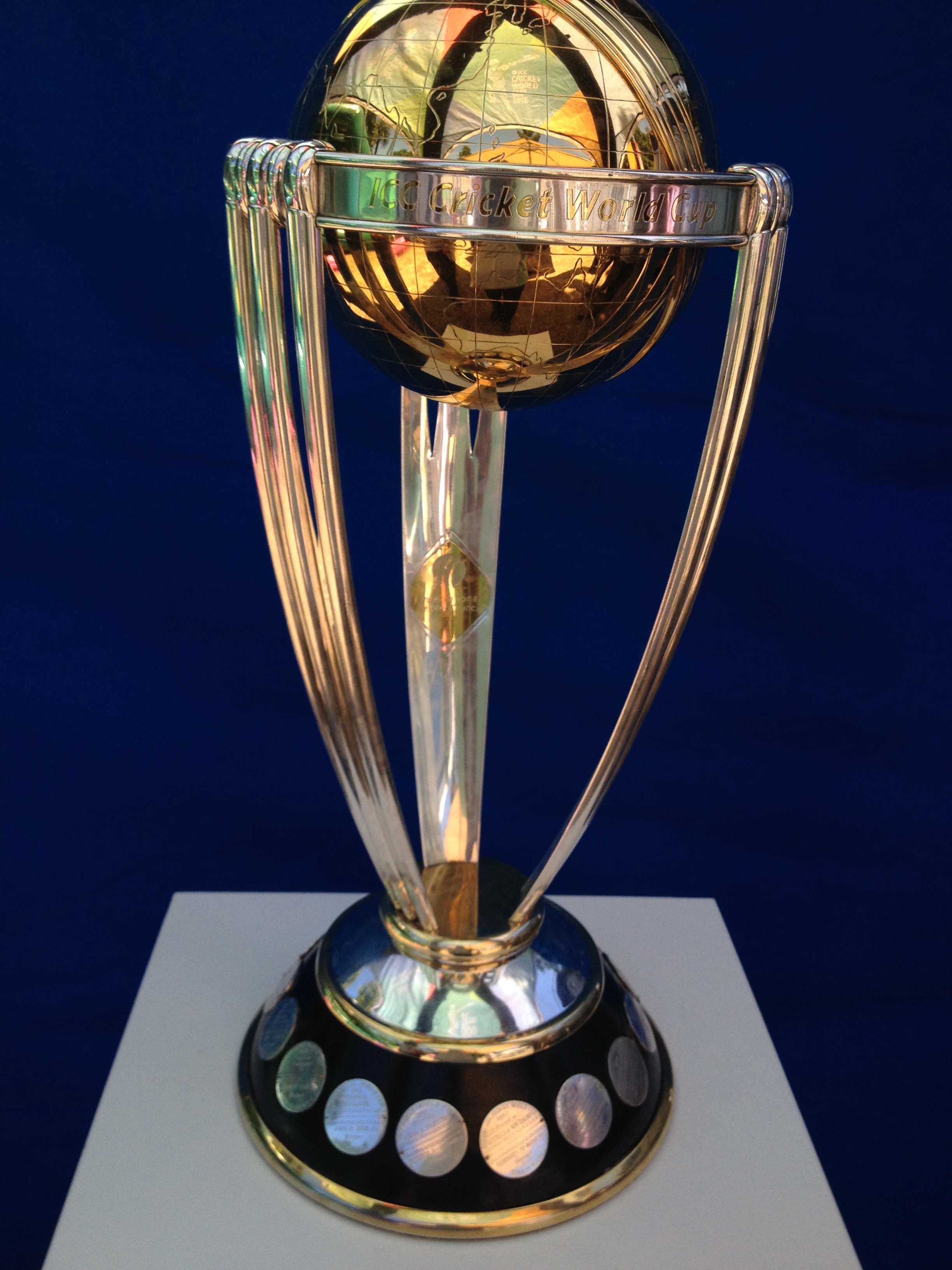 ICC world cup